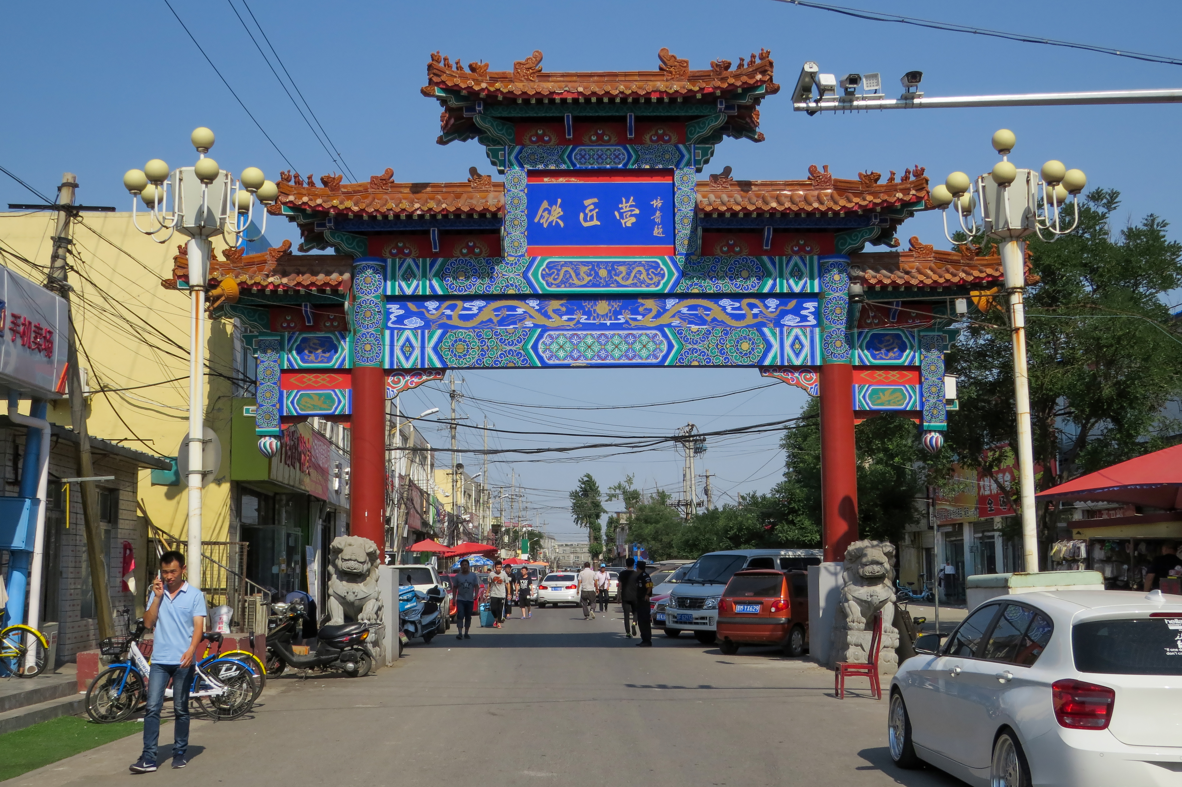 This is the gate to the famous plane spotting point.